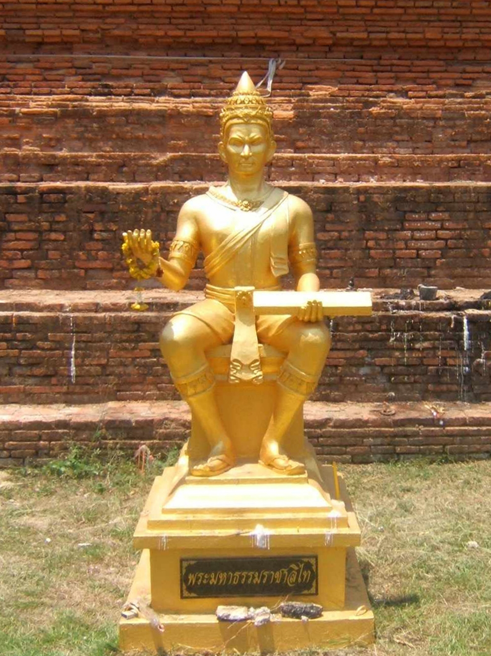 Mahathammaradscha Li Thai, King of Sukhothai